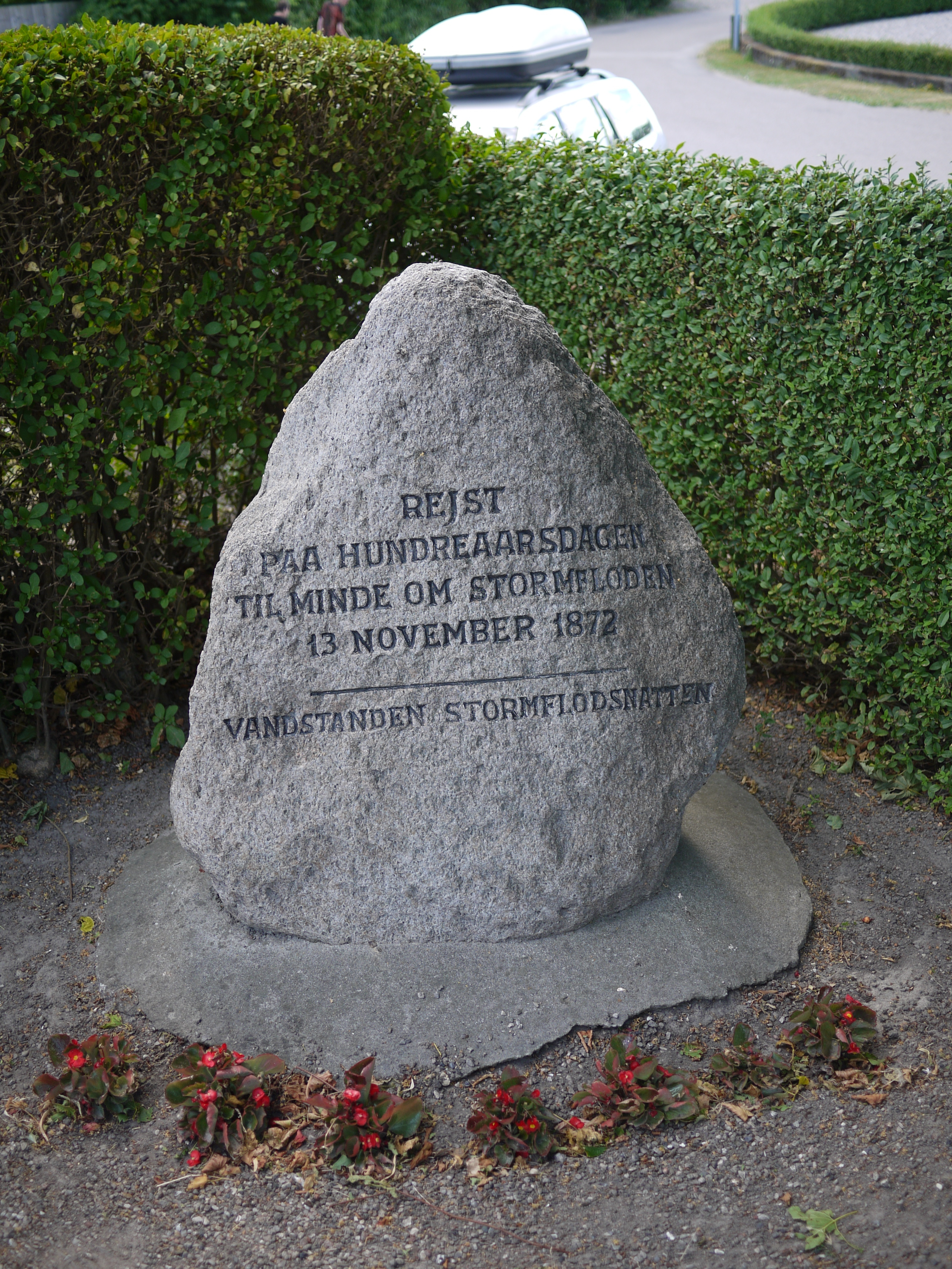 High water mark from Gedesby church - Storm Flood of 1872